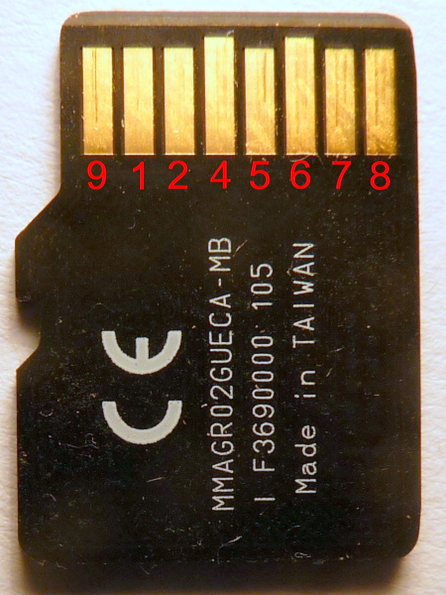 Micro SD card pin assignments.